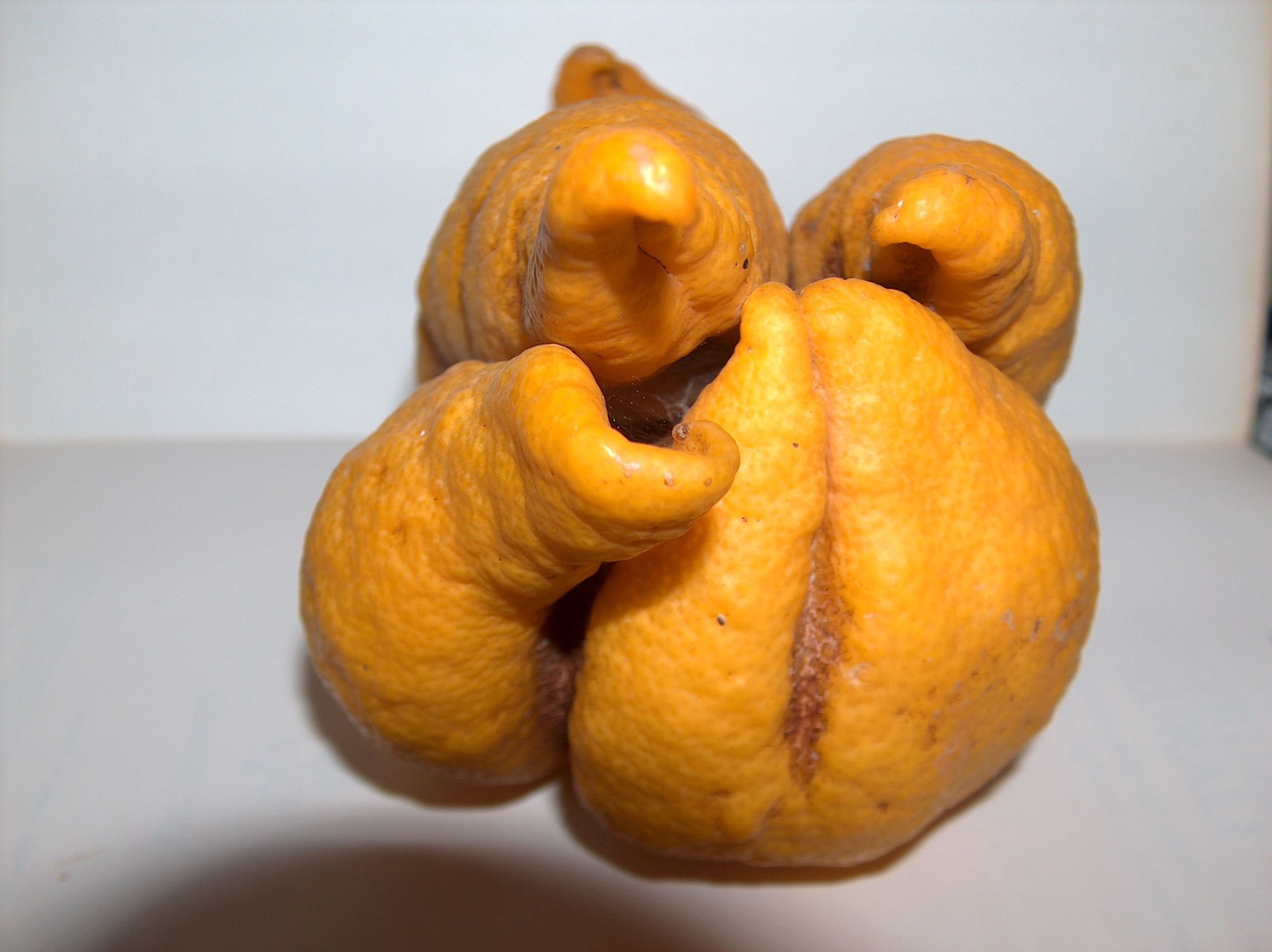 Damage of Aceria sheldoni (Acari: Eriophyidae) on lemon